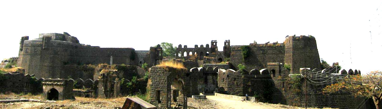 This is Udgir fort snap I have taken in my home town Udgir in April 2009.